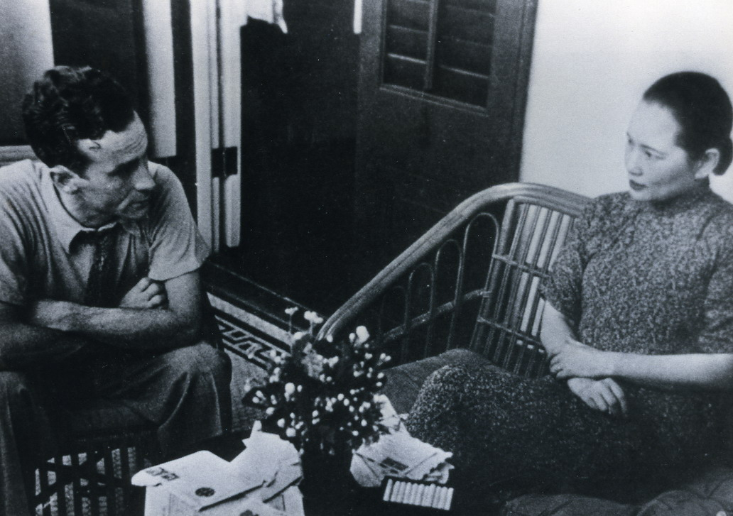 Soong Ching-ling and Edgar Snow in Hong Kong